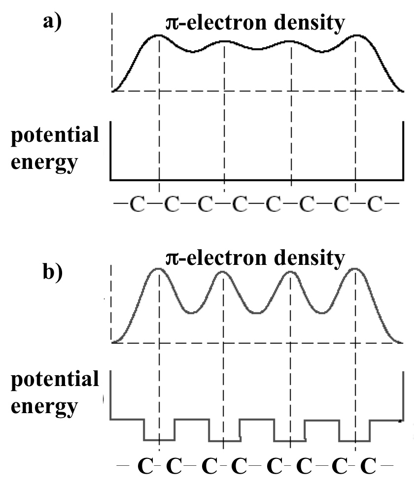 quantum chemical model for polyene